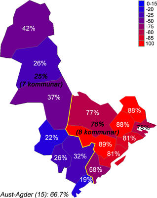 Aust-Agder referendum 2011: The proportion of voters agains joining Vest-Agder in one county.